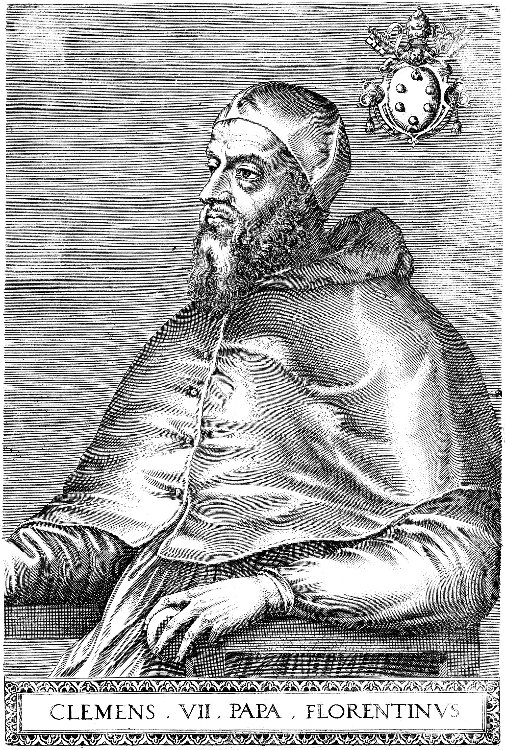 Portrait of Pope Clement VII (1478-1534).